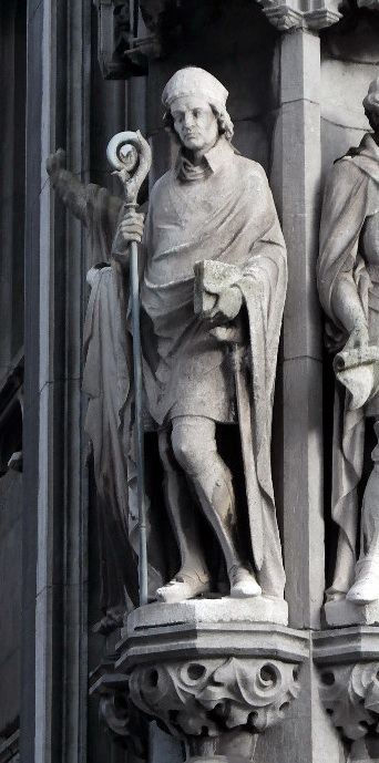 West façade of the provincial palace in Liège, Belgium Here the 19th-century statues of bishop Hugues de Pierrepont.